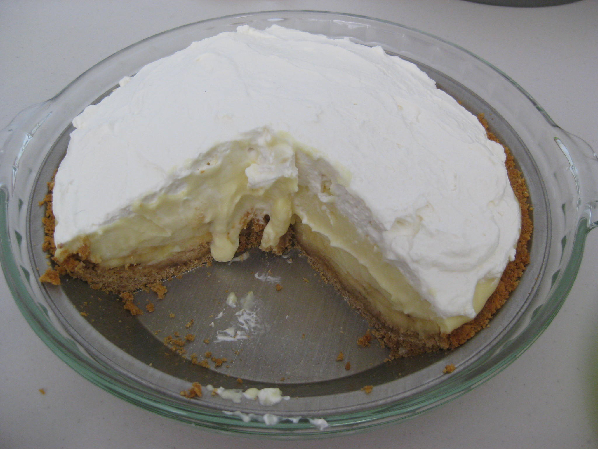 Banana cream pie with slice removed, that I made.